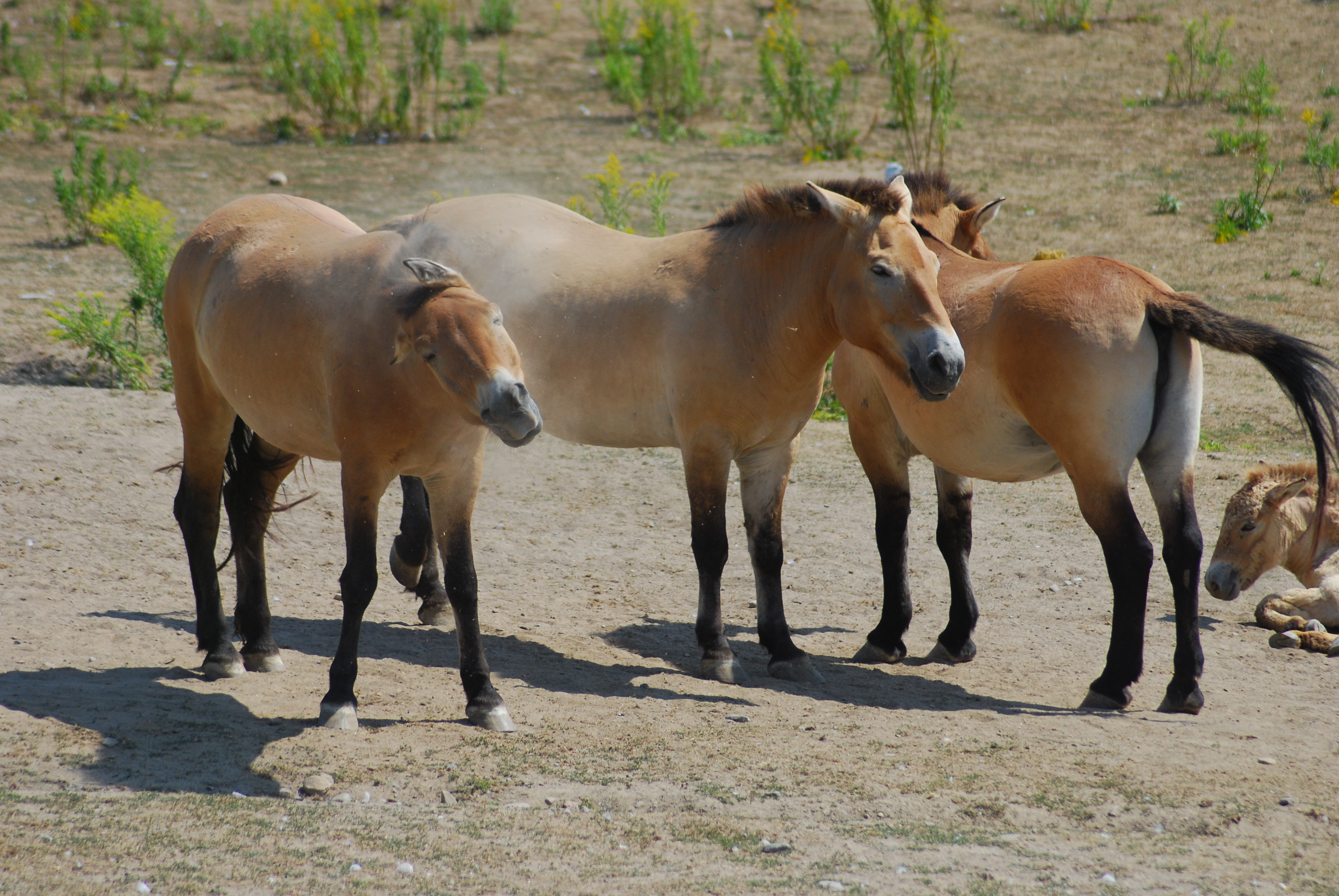 Przewalski's Horse found at the Toronto Zoo